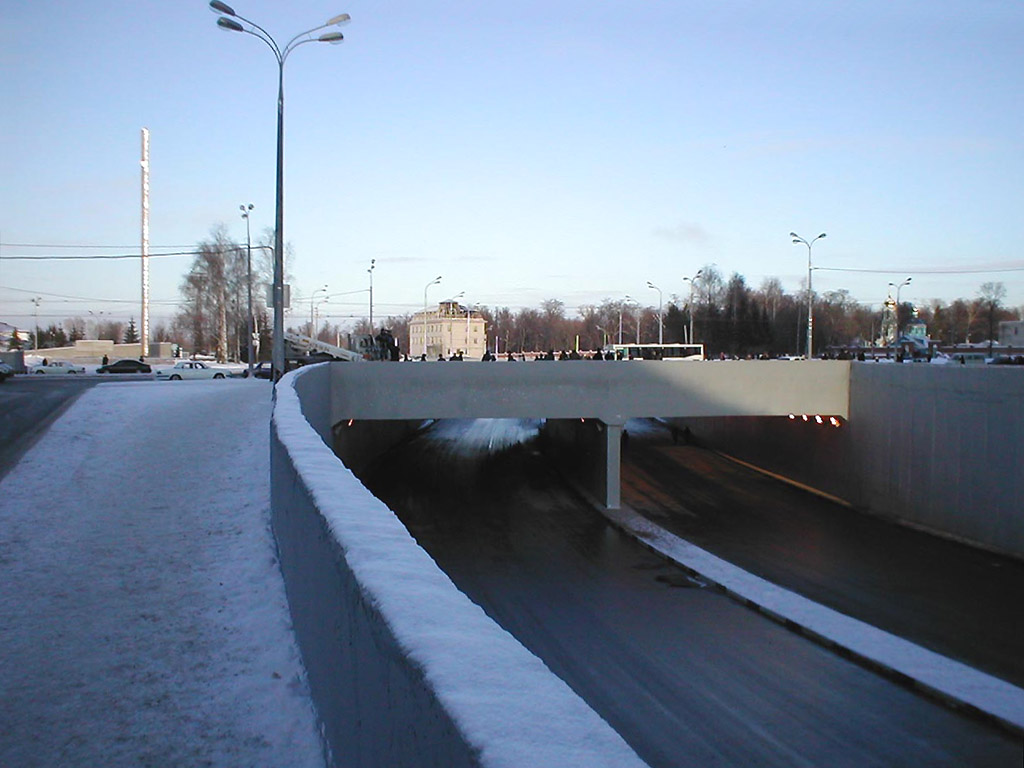 roads tunnel interchange on Nikolay Yershov and Vishnevsky streets crossing near Gorky park square in Kazan